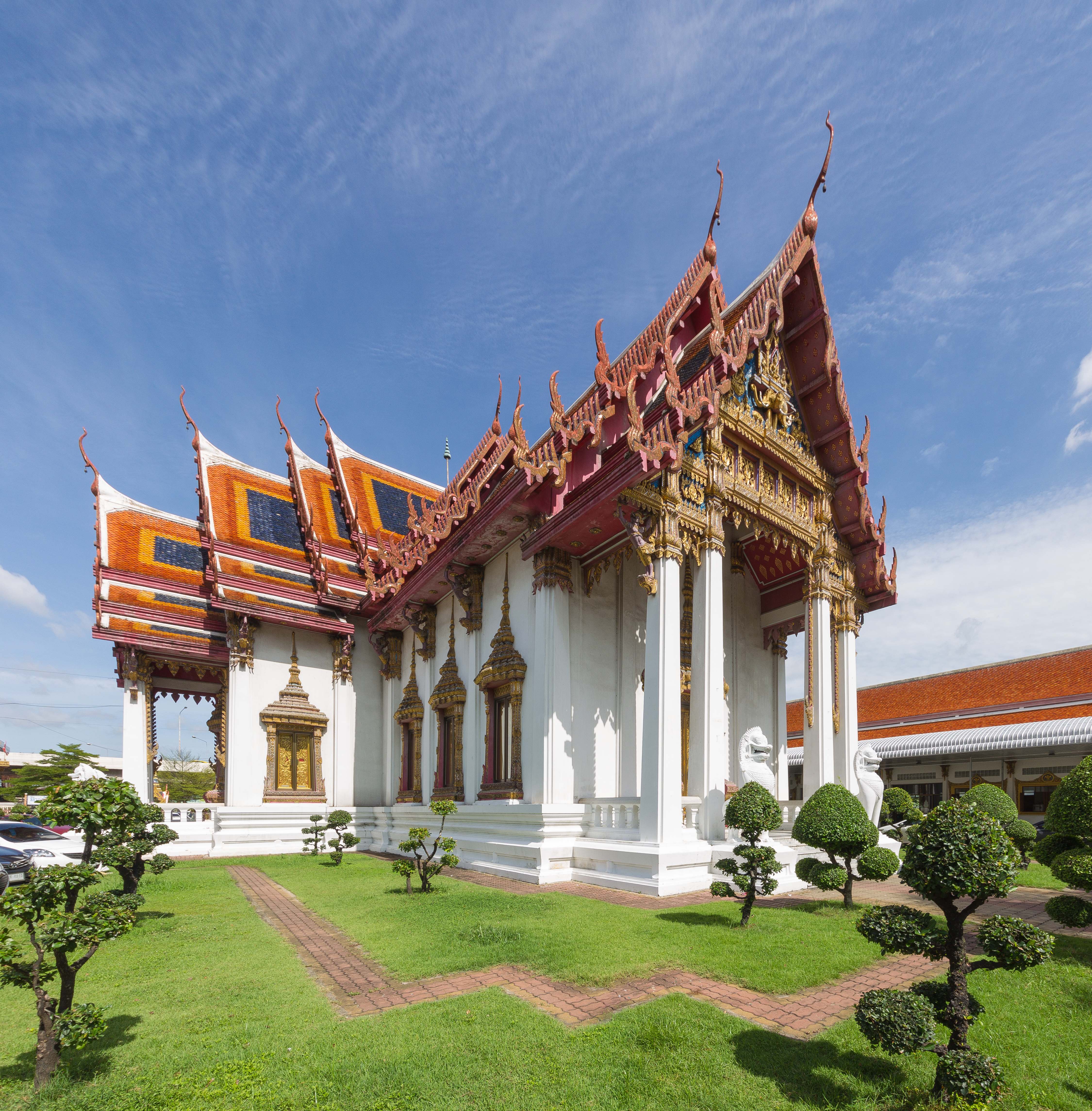 Wat Amarintharam, Bangkok, Thailand.